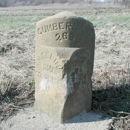 A mile marker along the National Road in western Franklin County, Ohio. I took this photo myself.